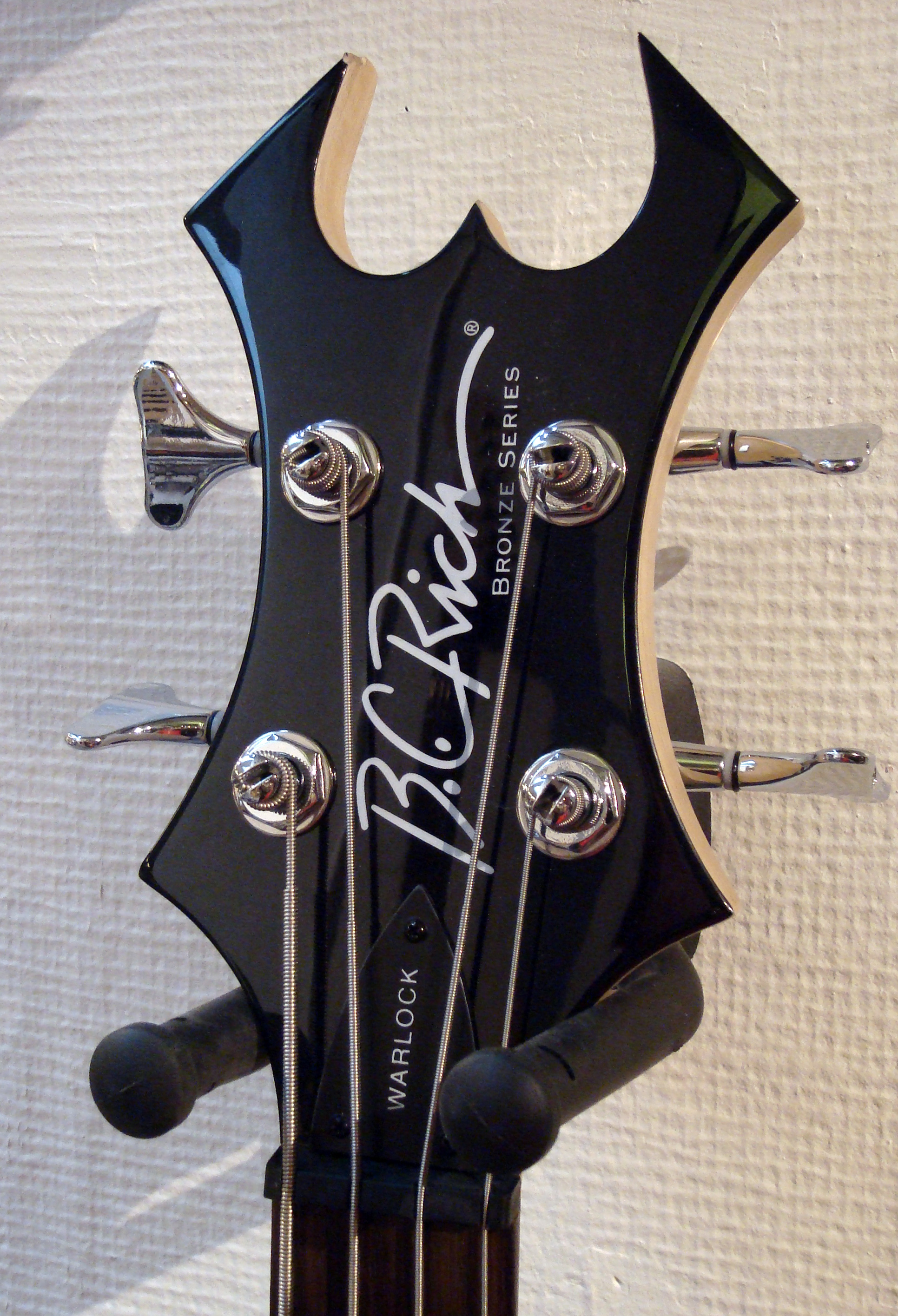 B.C. Rich Warlock Bronze Series bass guitar, closeup of the signature Widow headstock